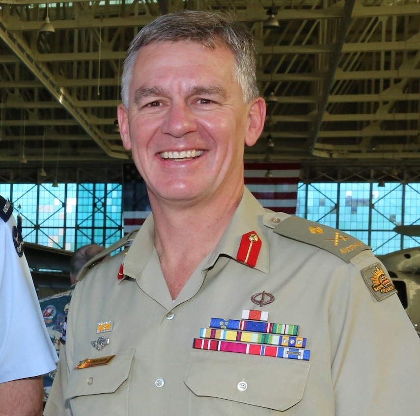 F-111 Gift Presentation & Dedication